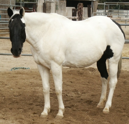 A Tovero colored mare. Horse owned by Ron Miller, Photo by Ron Miller